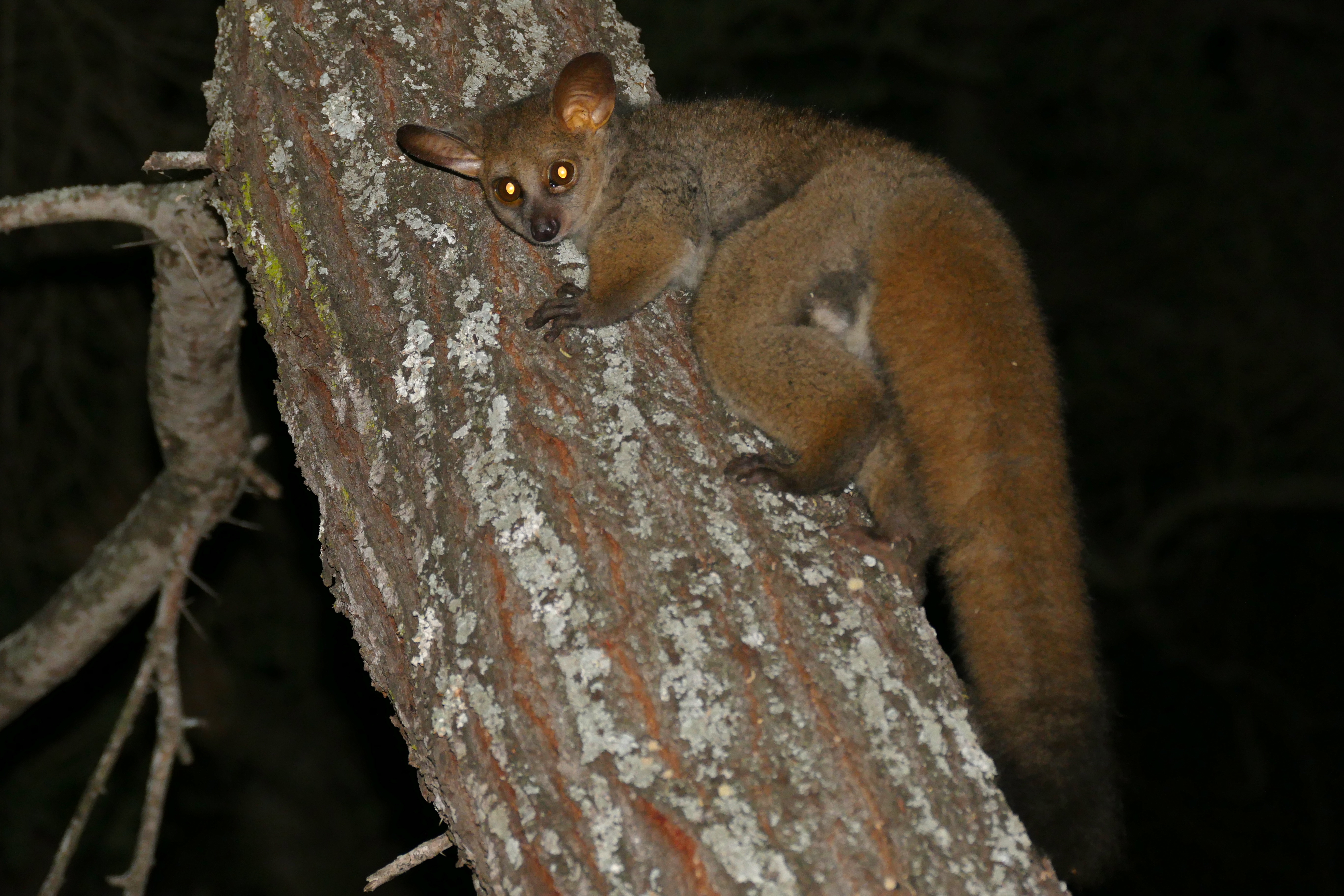 Thick-tailed bushbaby in Letaba Camp, Kruger NP, SOUTH AFRICA